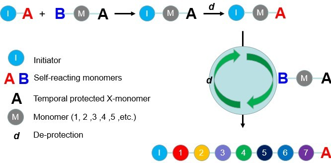 An illustration of sequence-controlled polymers